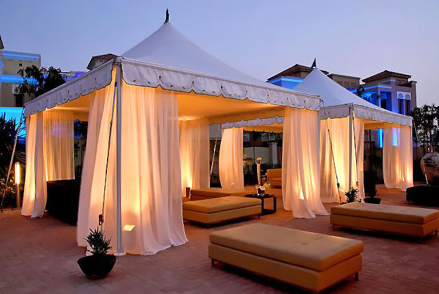 Marquee-tent Giulio Barbieri S.p.A. - Dubai, Harlequin, Al Barari Event